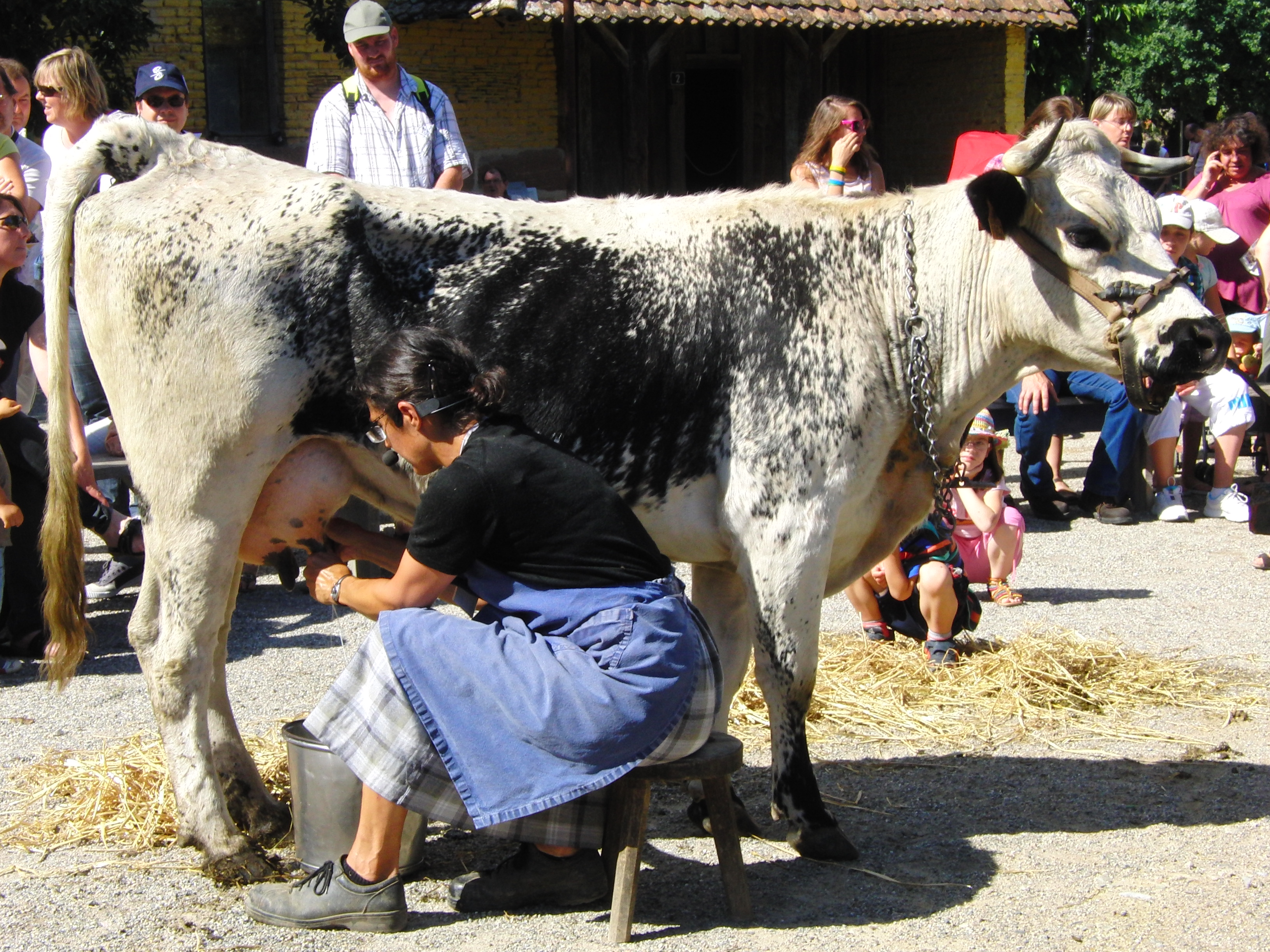 Hand milking a vosgienne cow, Ecomusée d'Alsace, France